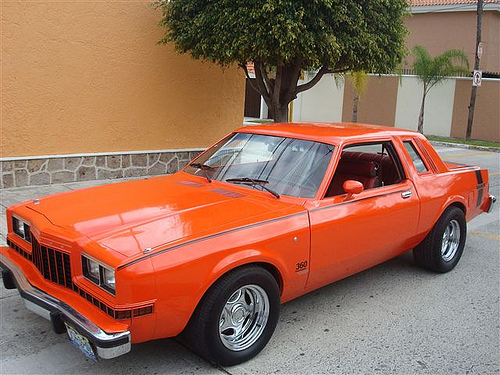 Mexican 81-82 Dodge Magnum